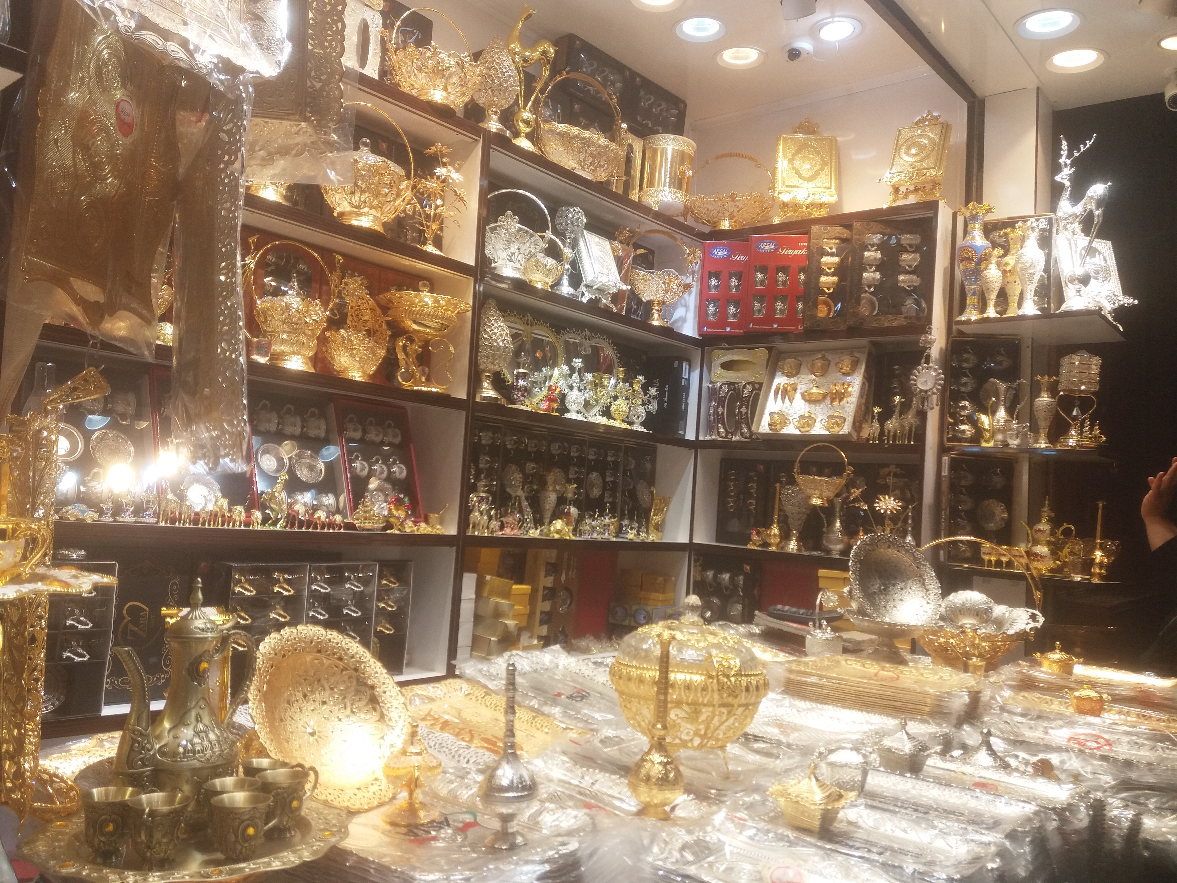 Najaf, 2017